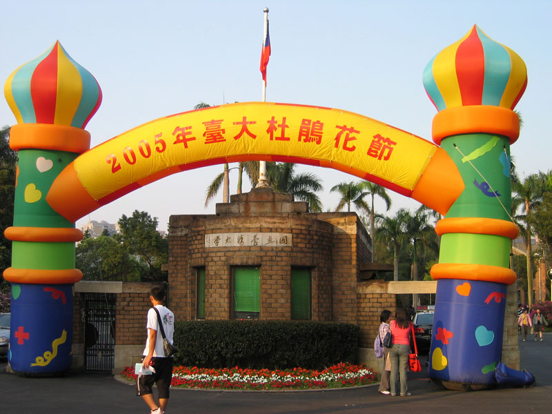 The main gate of Main Campus, National Taiwan University during 2005 NTU Azalea Festival.